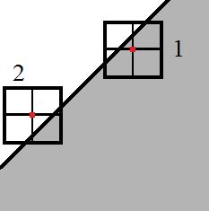 The behaivour of the kuwahara filter in 2 separate cases with an edge in their windows. Point 1 will assume a darker color whereas point 2 will assume a lighter color.